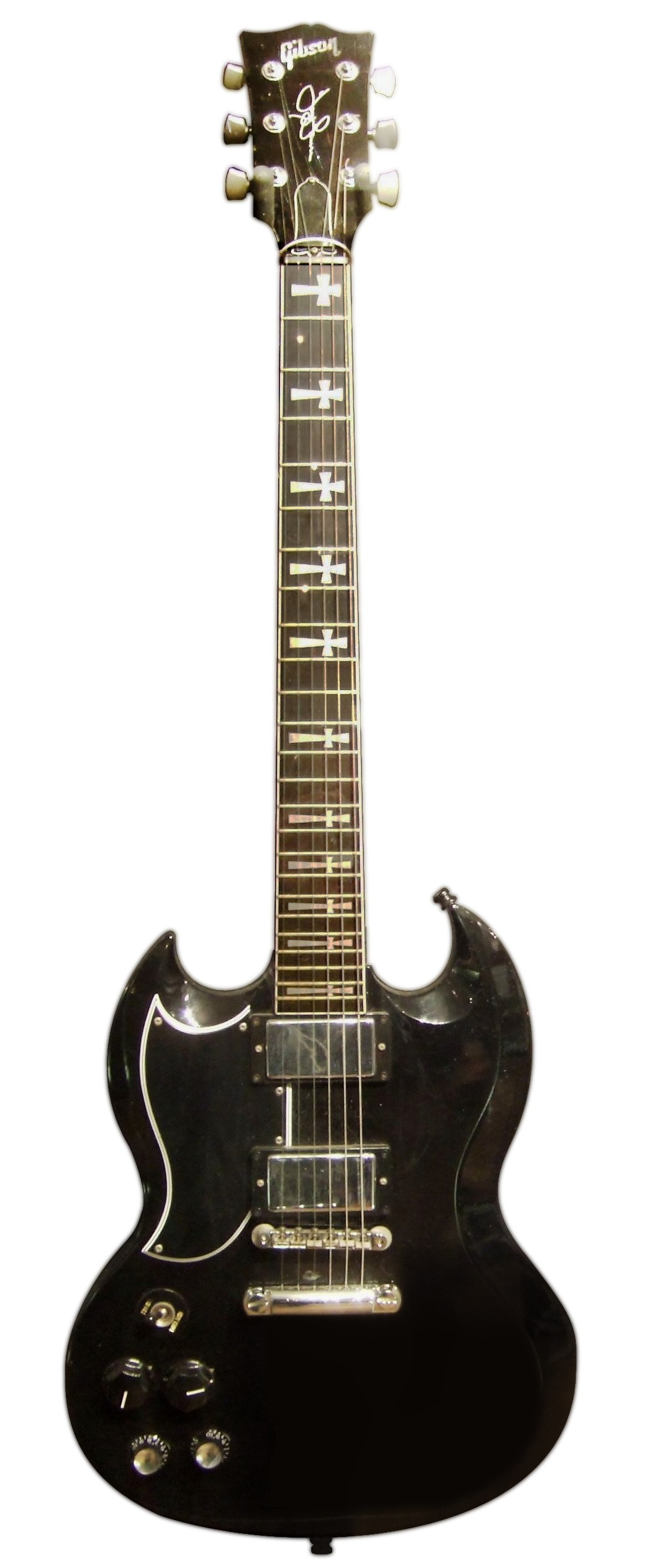 Tony Iommi's signature "Born To Rock" Gibson SG electric guitar.